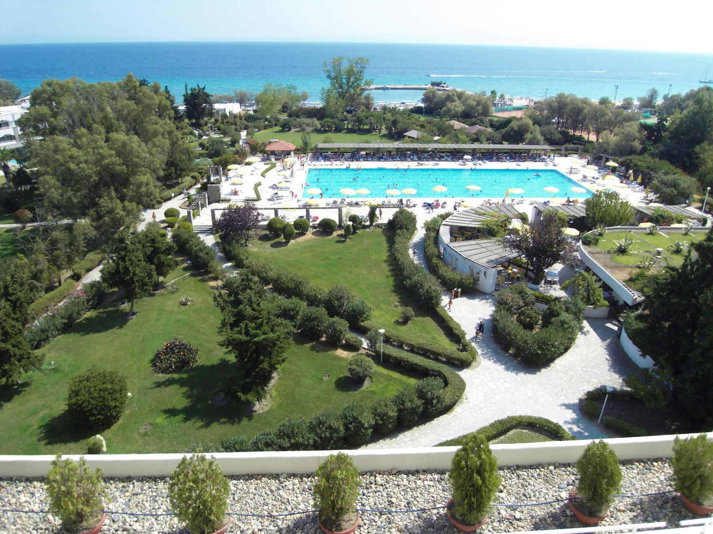 Hotel "Atos Palace", Kassandra, Chalcidice, Greece